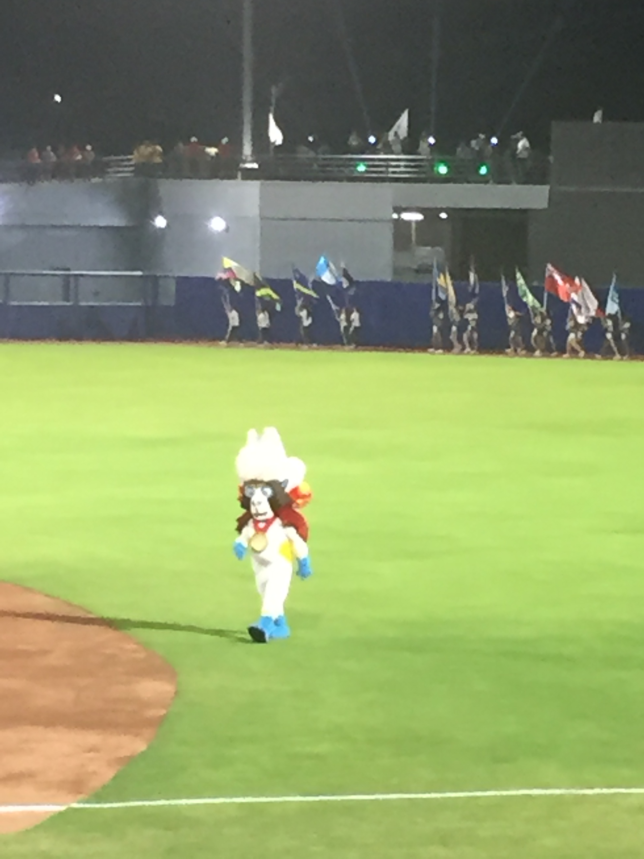 Mascot Baqui